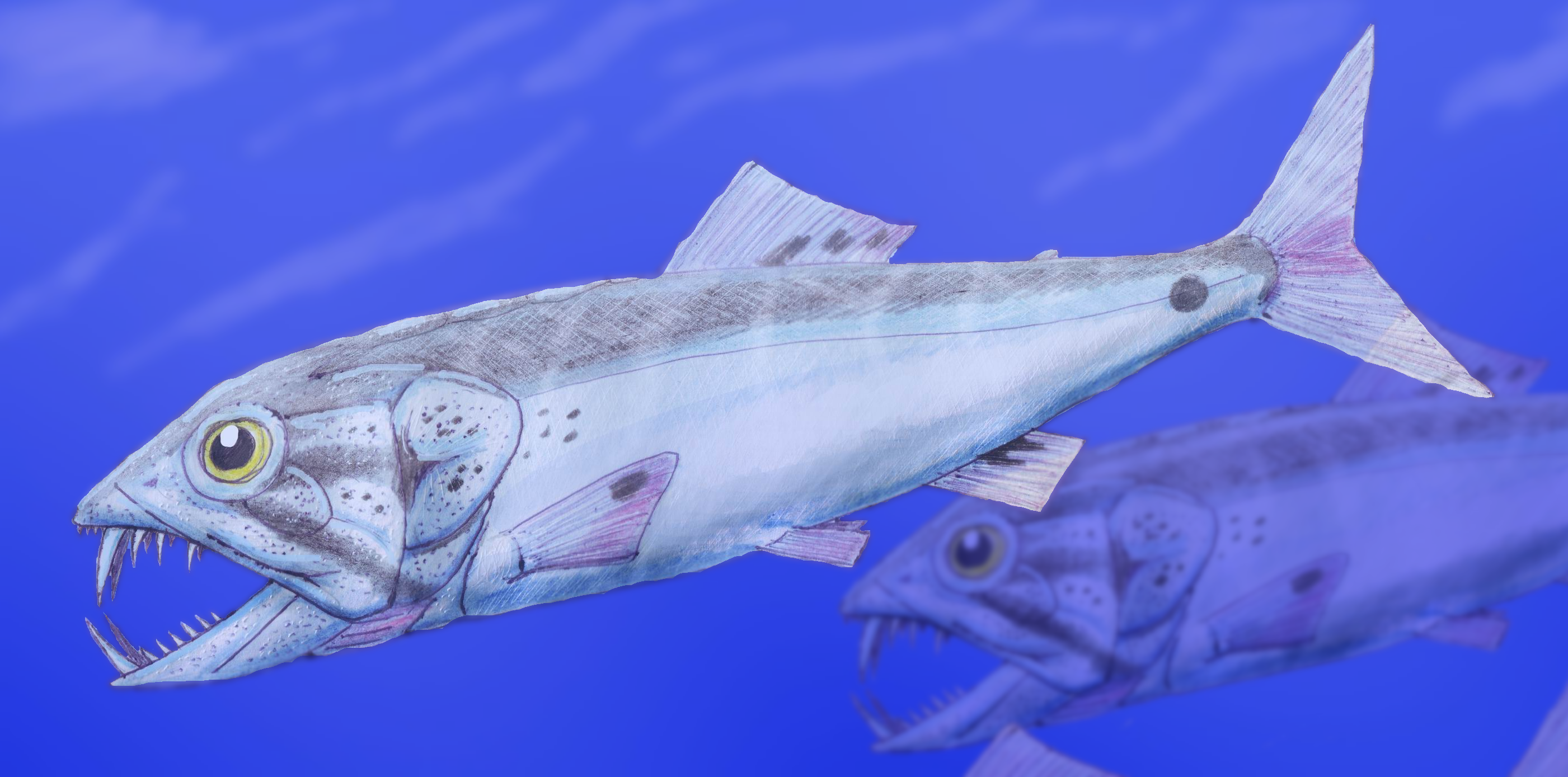 Crop of file in filename